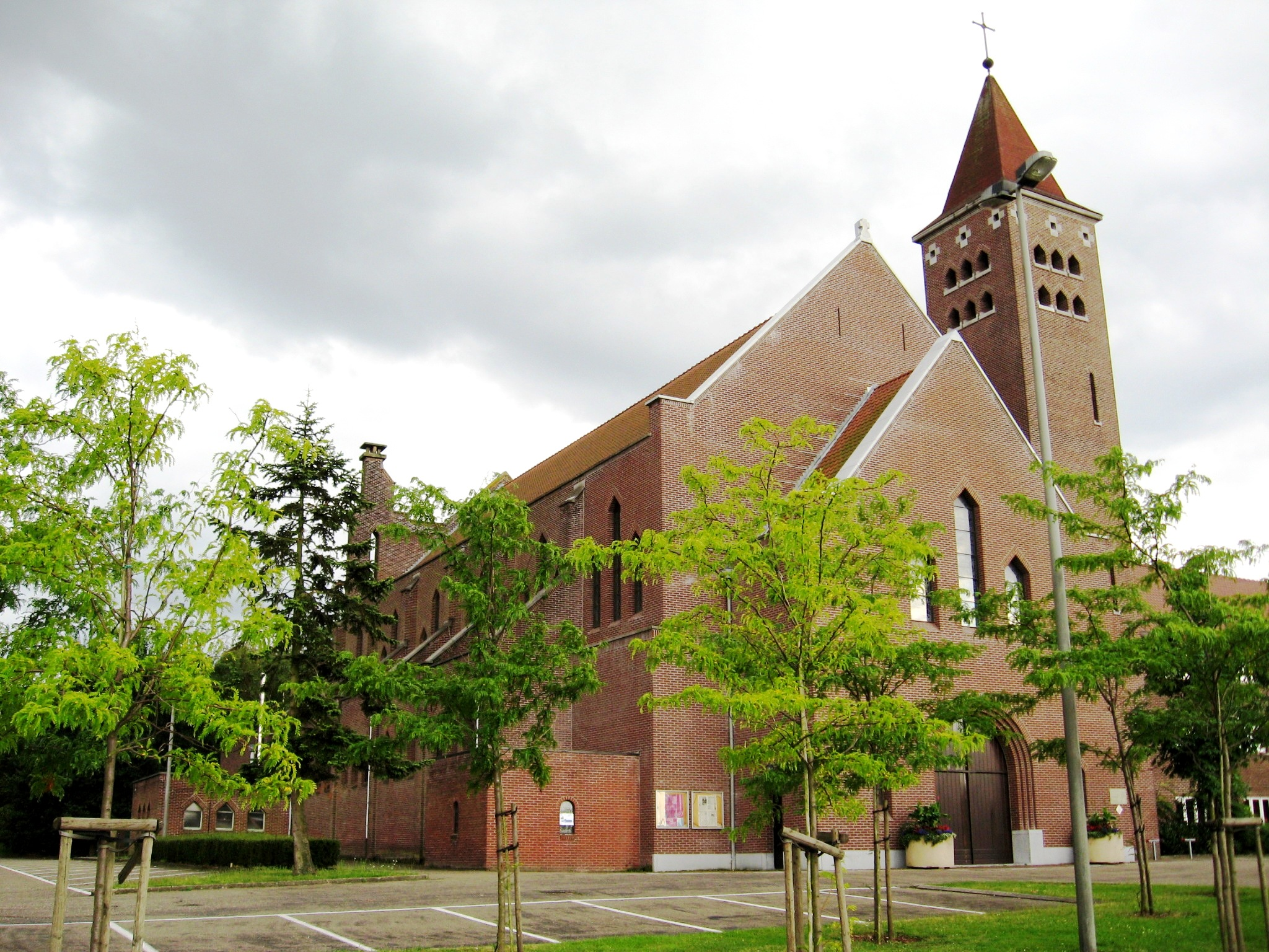 Church of Our Lady of the Rosary in Genk (Termien), Limburg, Belgium